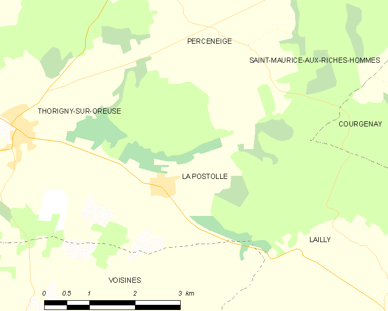 Map of French municipality La Postolle